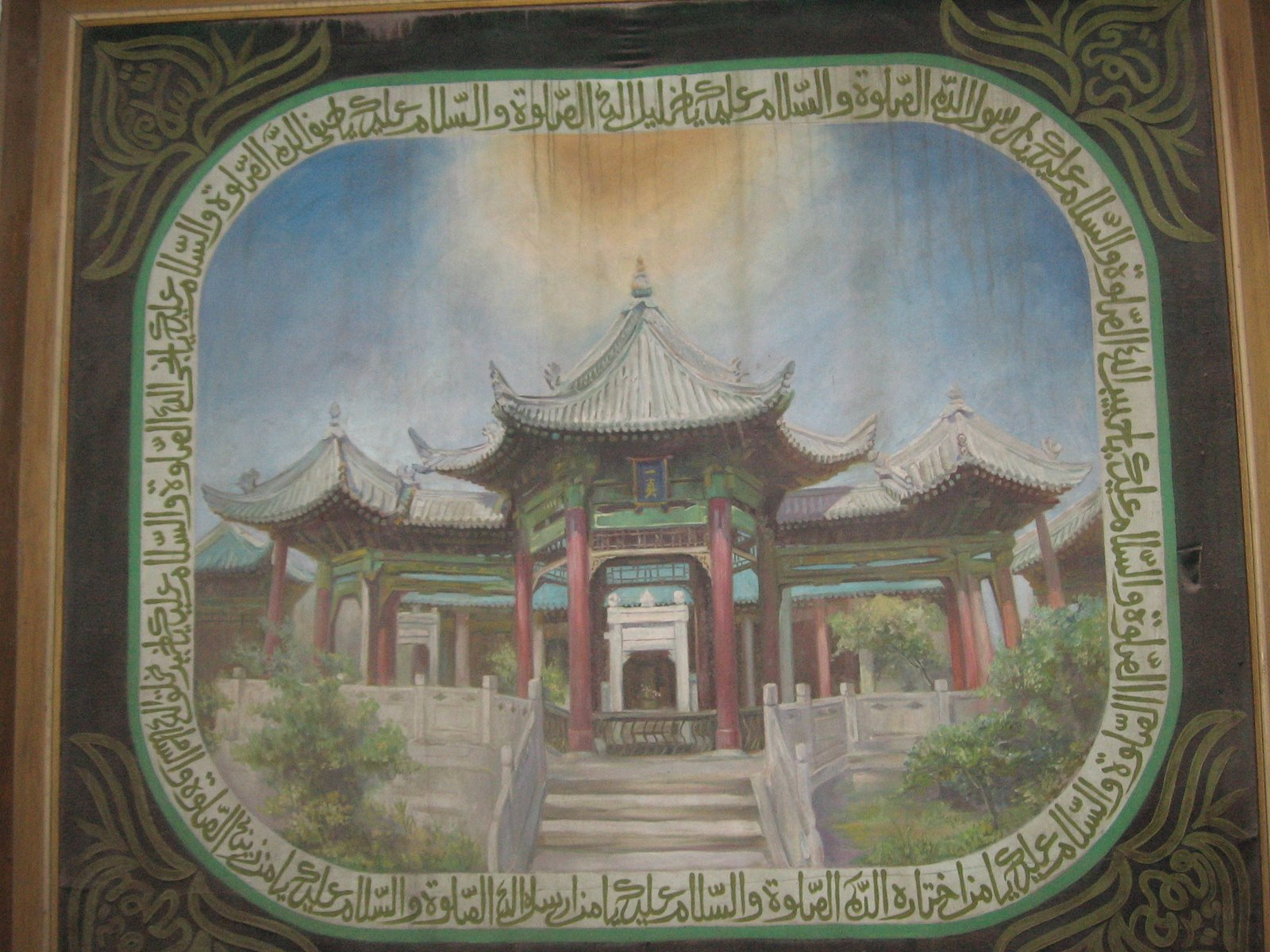 Painting in the Great Mosque of Xi'an, Shaanxi, China